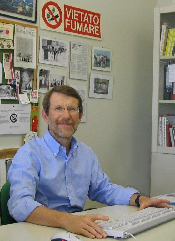 Renato Talamini's photo